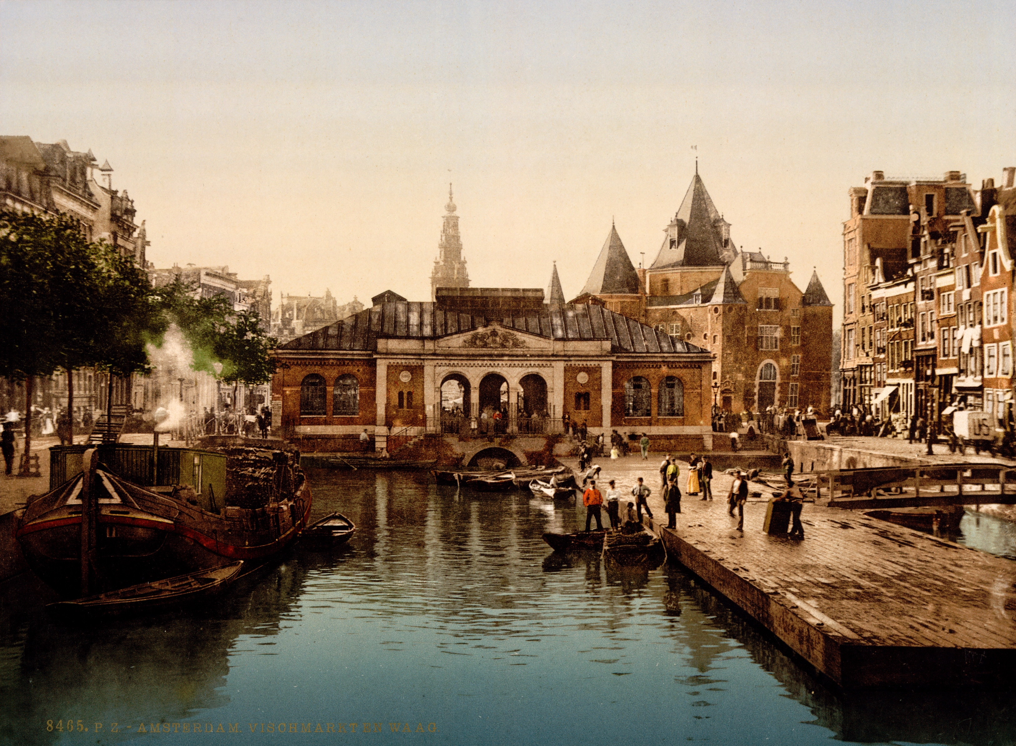 Fishmarket and bourse (i.e. weighing house), Amsterdam. Photo shows De Waag or weighing house at right, originally a gate in the city walls and now a subway station, Nieuwmarkt.